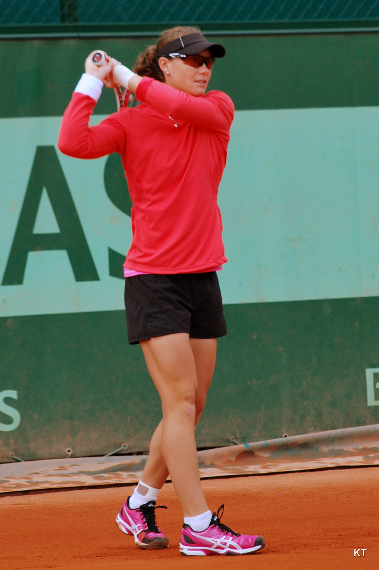 Sam Stosur practising before her 3rd round match with Nadia Petrova on Day 6 of the French Open. Roland Garros 2012.